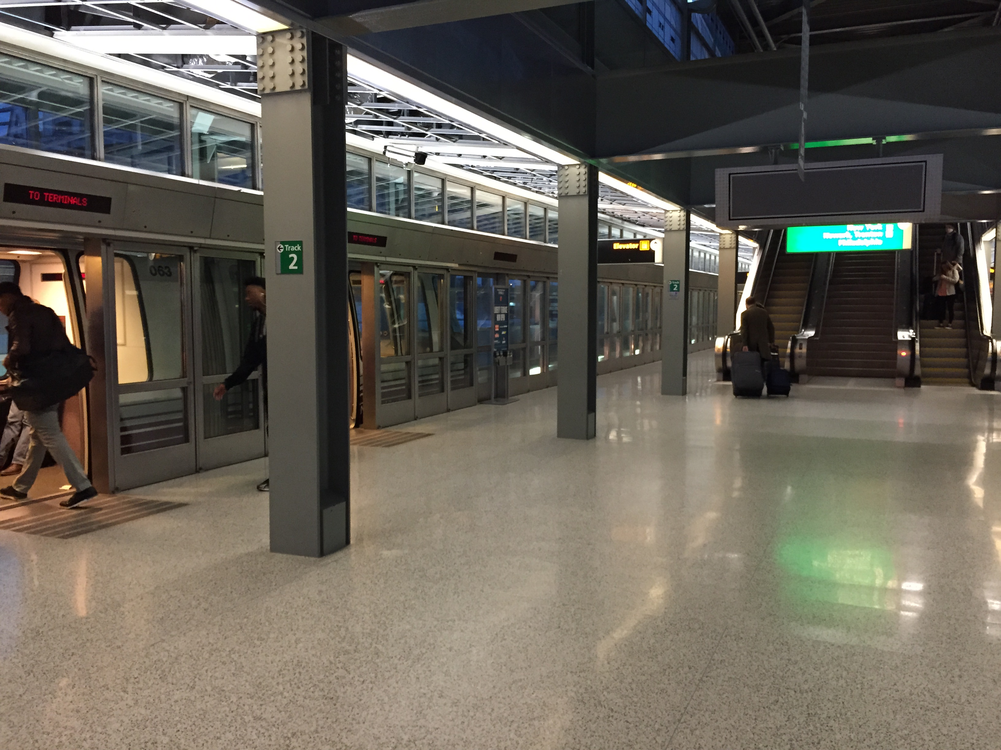 Passengers boarding AirTrain Newark at the NJ Transit Newark Liberty International Airport Rail Station, New Jersey